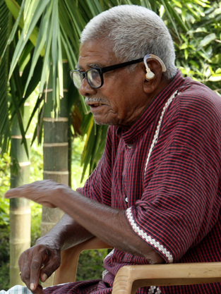 Polan Sarkar with Malay Bhowmick